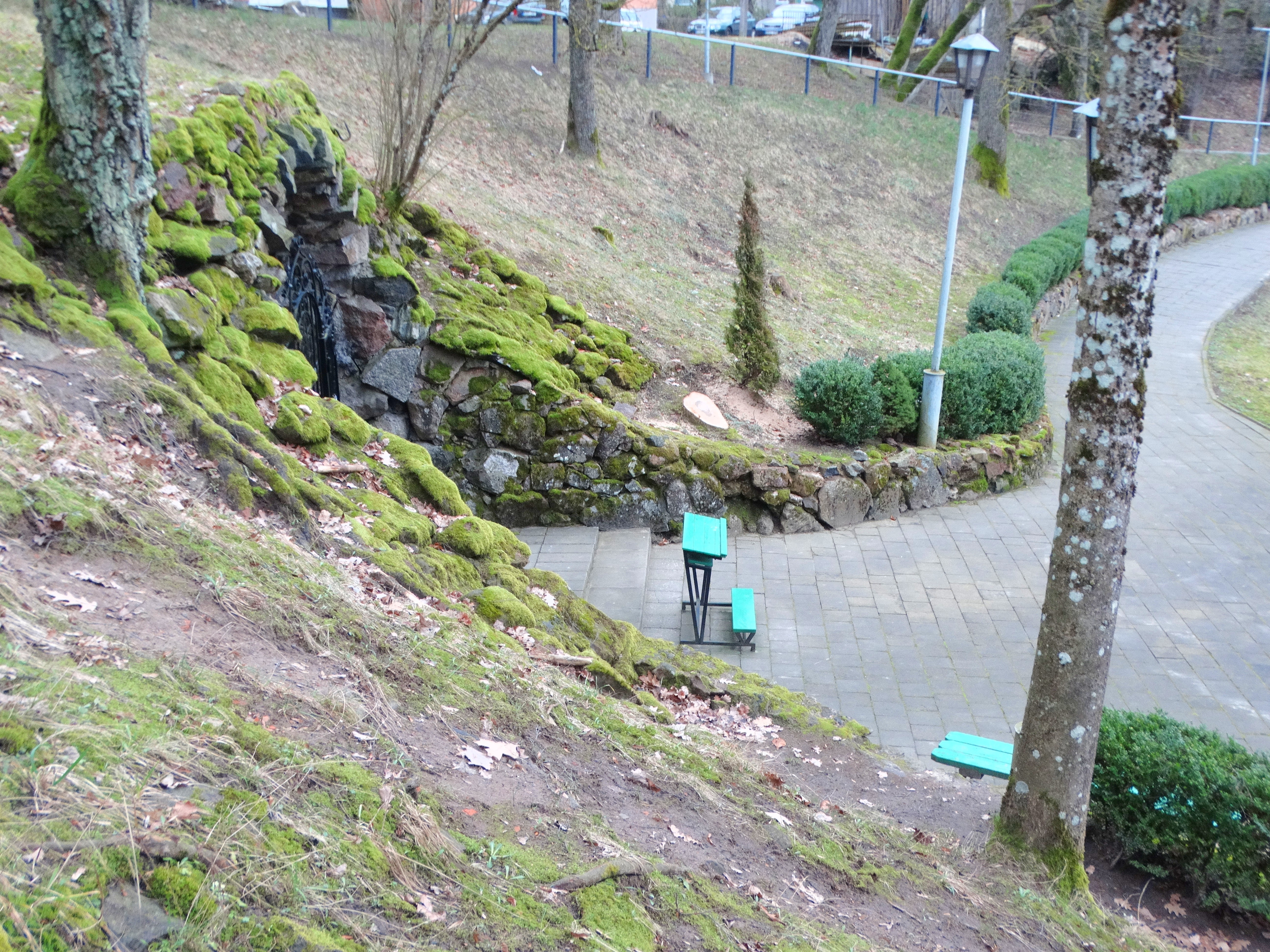 Lourdes in Plungė, Lithuania